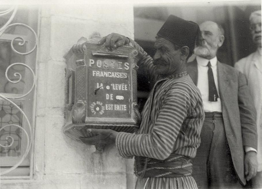 Removing French post box, at the time of the abrogation of foreign Capitulations